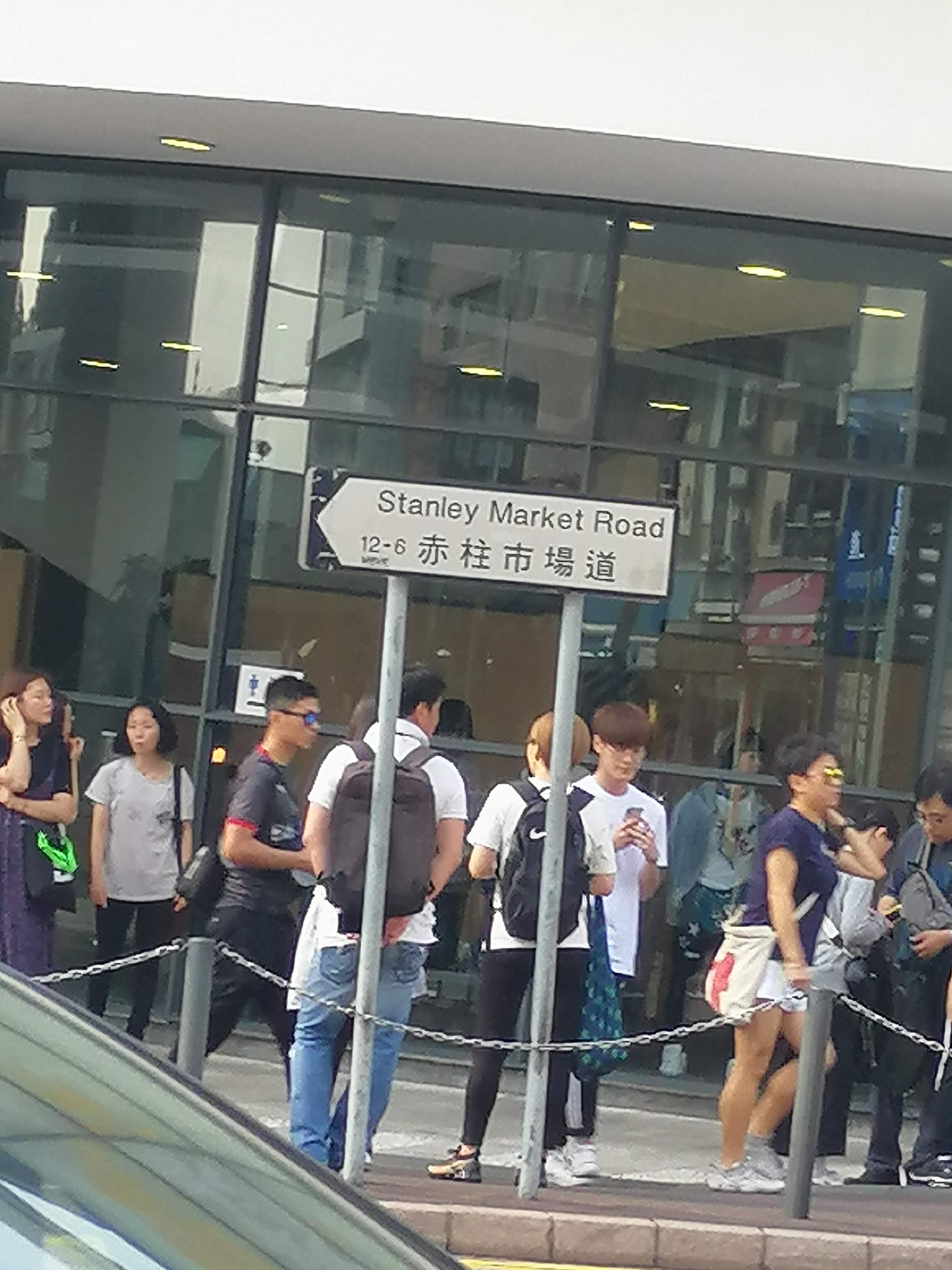 stanley view 5